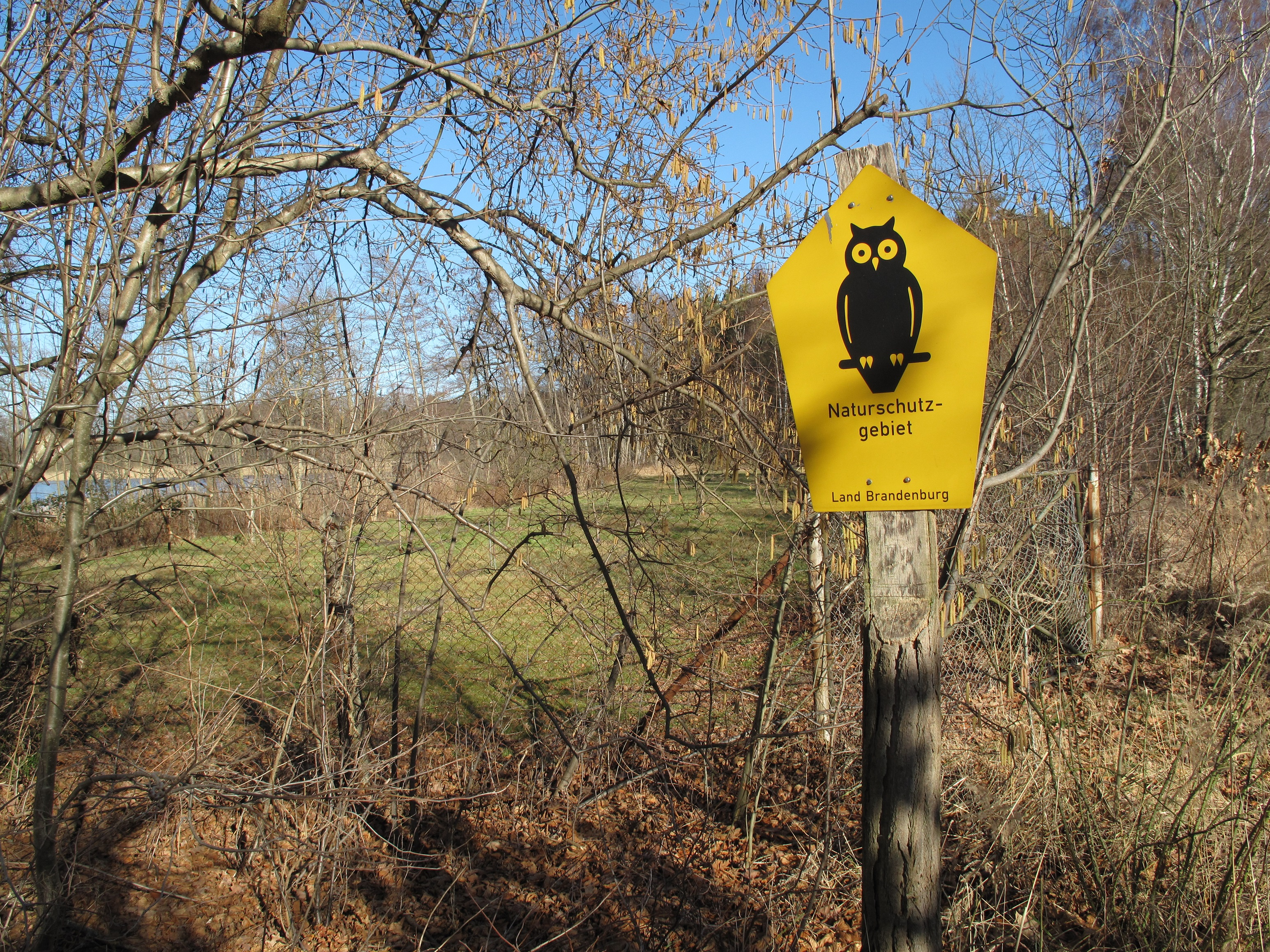 The Naturschutzgebiet Linowsee-Dutzendsee is a Naturschutzgebiet (protected area) and Natura 2000-area in the districts Oder-Spree and Dahme-Spreewald in Brandenburg, Germany. The area covers about 60 hectare and is situated in the Dahme-Heideseen Nature Park. Central parts of the area are the very shallow lake Linowsee (pictured left) and the terrestrialisation mire of the former Dutzendsee.